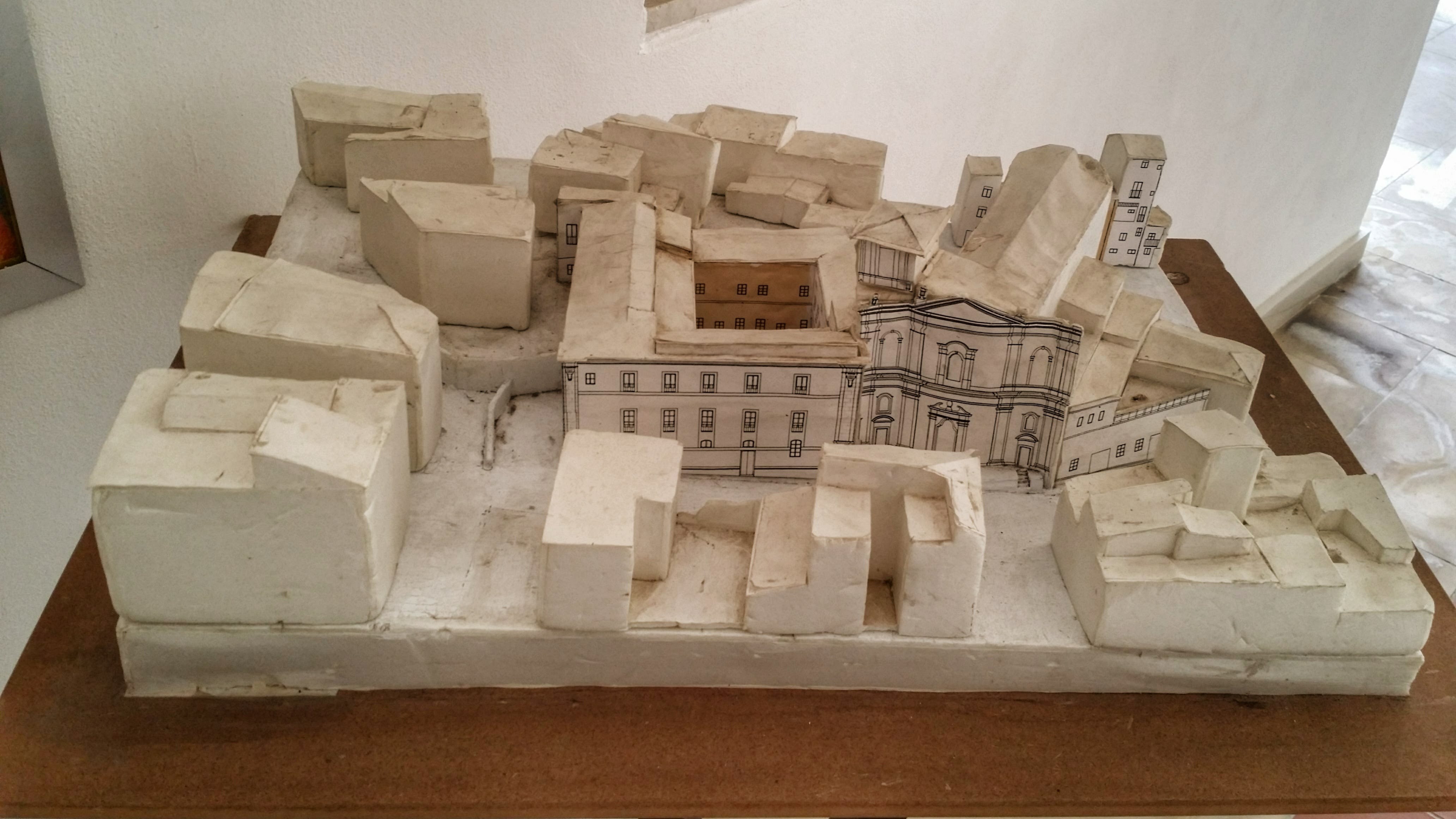 Plastic of the church and the convent of San Domenico within the quarter Angeli in Caltanissetta, Italy